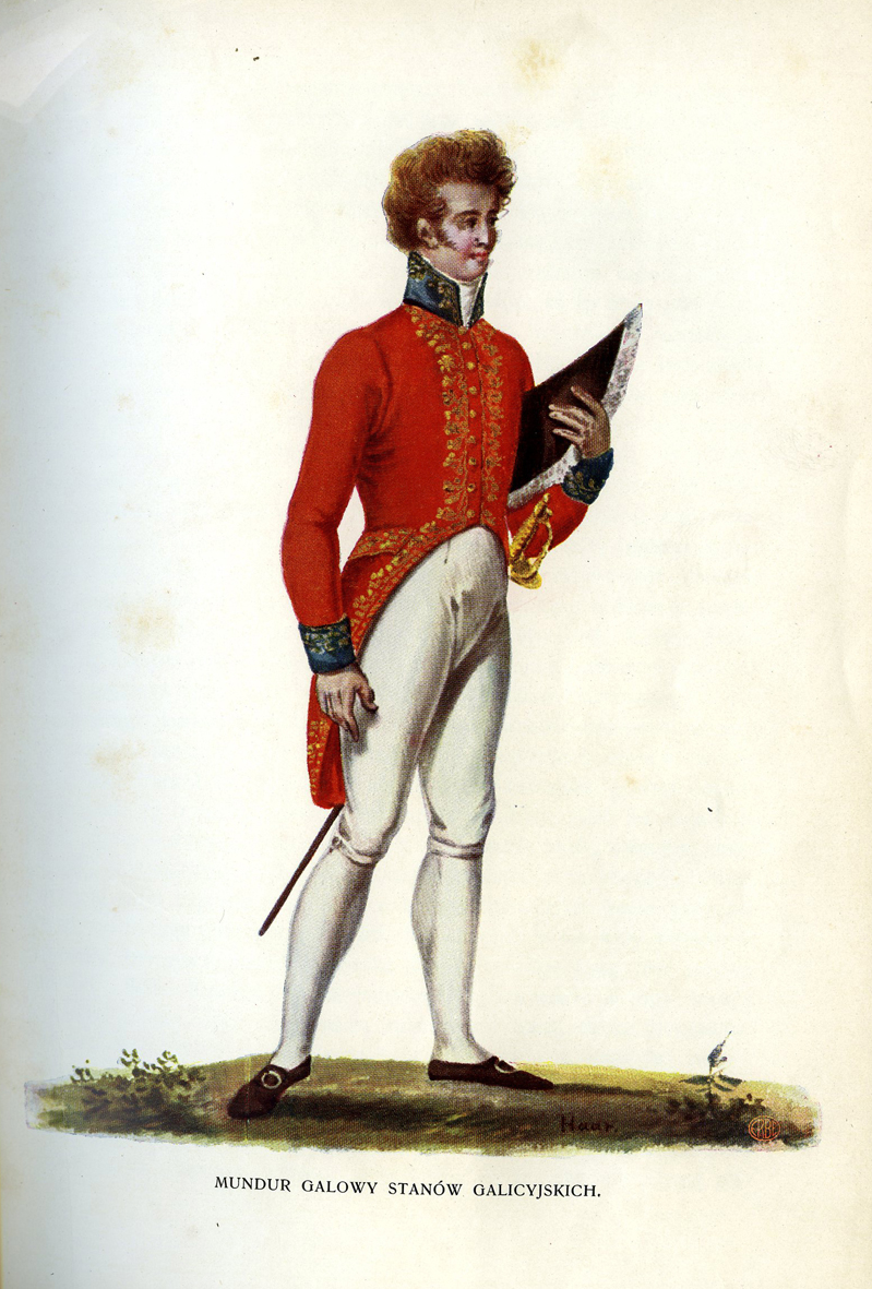 Mundur galowy członka Stanów Galicyjskich